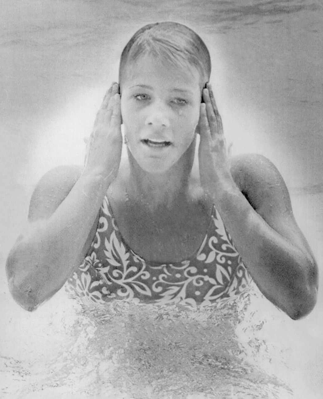 1968 Press Photo 15-year-old Olympic swimmer, Eadie Wetzel - sps10013